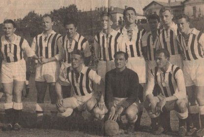 UTA Arad squad in 1947, champion of Romania.